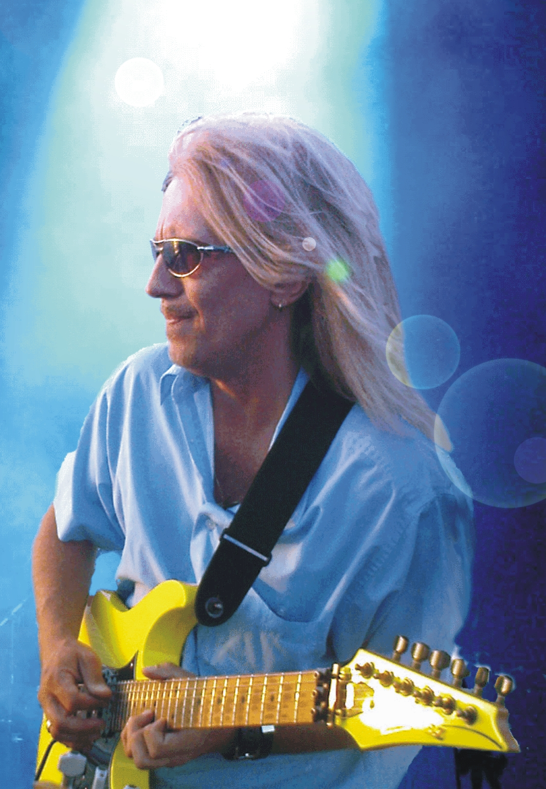 Bernd Kofler, composer, guitarist and author from Austria